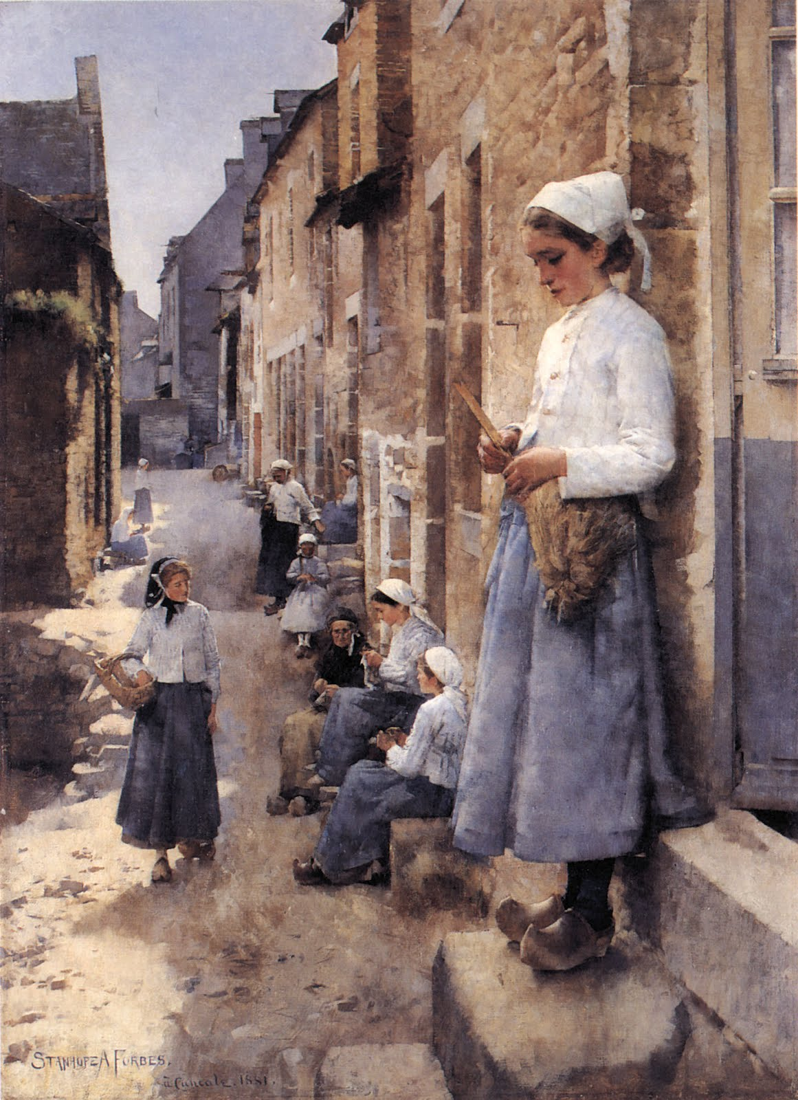 картины художника Стэнхоуп Александер Форбса (1857-1947)